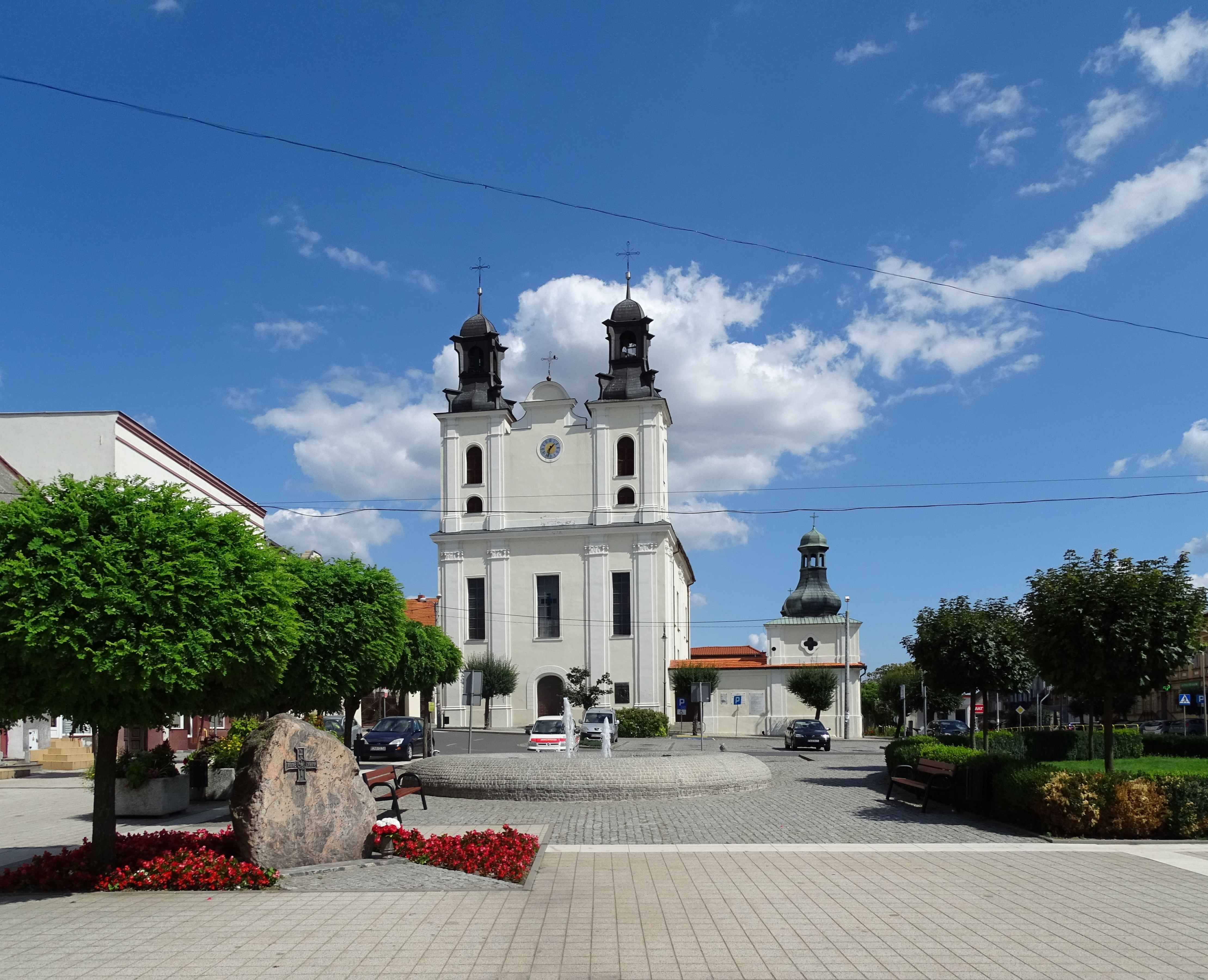 Kcynia, Poland, Church of the Assumption of the Blessed Virgin Mary was built in 1788-1790 as a Carmelite church.